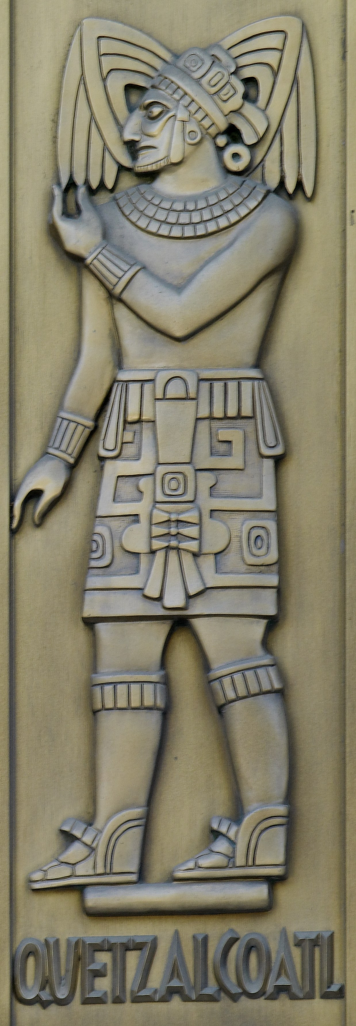 Quetzalcoatl, sculpted bronze figure by Lee Lawrie. Door detail, east entrance, Library of Congress John Adams Building, Washington, D.C.